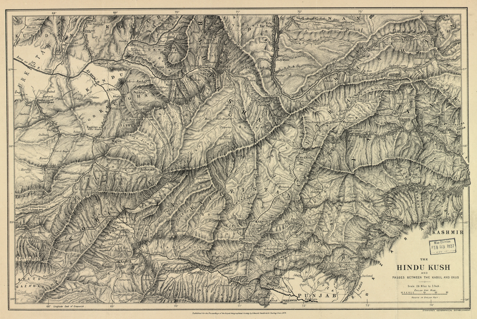 This map originally appeared in the February 1879 issue of the Proceedings of the Royal Geographical Society and Monthly Record of Geography in connection with an article by C.R. Markham entitled “The Upper Basin of the Kabul River.” The Hindu Kush is a range of high mountains that extends some 800 kilometers in a northeast-to-southwest direction from the Pamir Mountains near the Pakistan-China border, through Pakistan, and into western Afghanistan. The range forms the drainage divide between two great river systems, the Amu Darya to the northwest, and the Indus to the southeast. The ancient Greeks called the Amu Darya the Oxus, the name used on this map. The passes through the Hindu Kush historically have been of great military significance. Alexander the Great (356-323 BC) crossed these mountains with his army in 329 BC, most likely over the Khawak Pass, during a campaign to suppress a revolt against his authority in Bactria, an eastern province of the Persian Empire. Hindu Kush Mountains